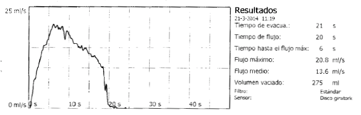 Normal uroflowmetry